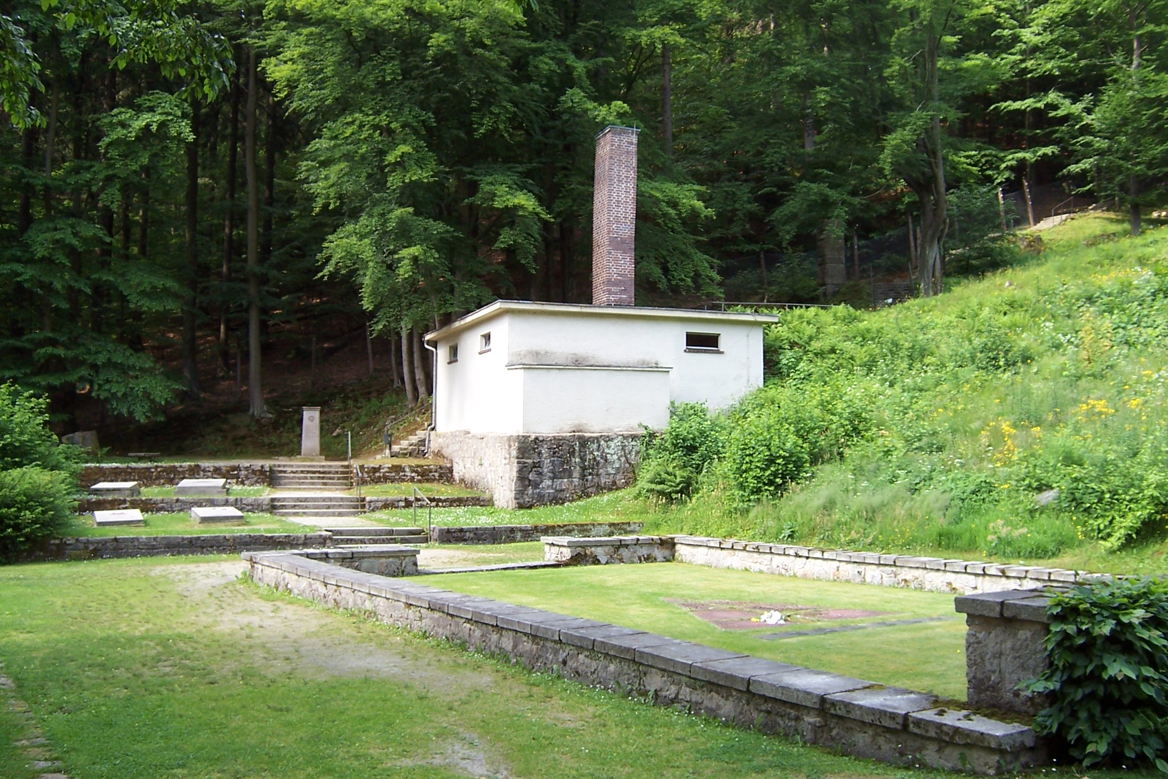 Flossenbürg concentration camp, exterior view of crematory